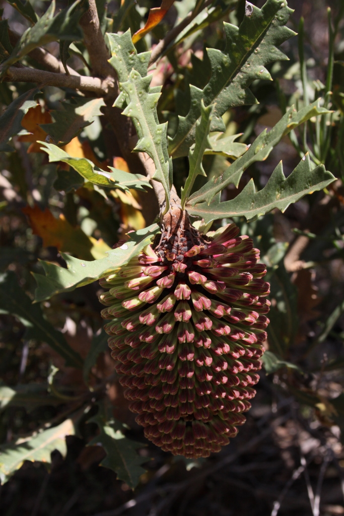 Banksia aculeata along the northern part of Red Gum Pass Rd in Stirling Range National Park, WA